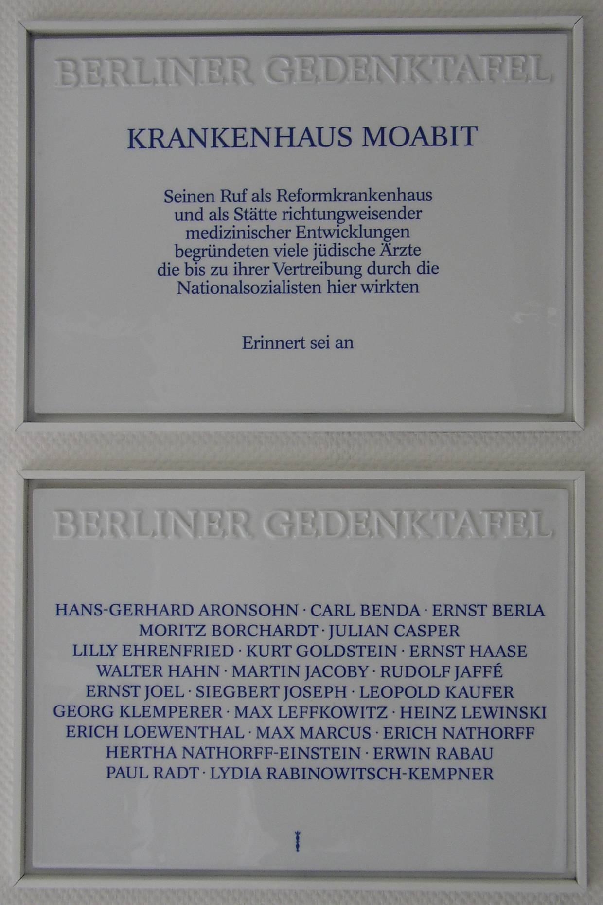 Berlin memorial plaque for the hospital Moabit in Berlin, Germany